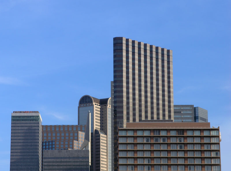 A portion of the downtown skyline in Dallas, Texas (USA)